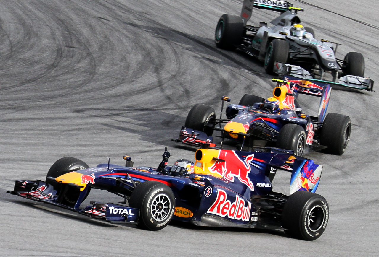 Formula One 2010 Rd.3 Malaysian GP: the podium finishers of the race; Sebastian Vettel (Red Bull), Mark Webber (Red Bull), and Nico Rosberg (Mercedes GP) after the checkered flag.